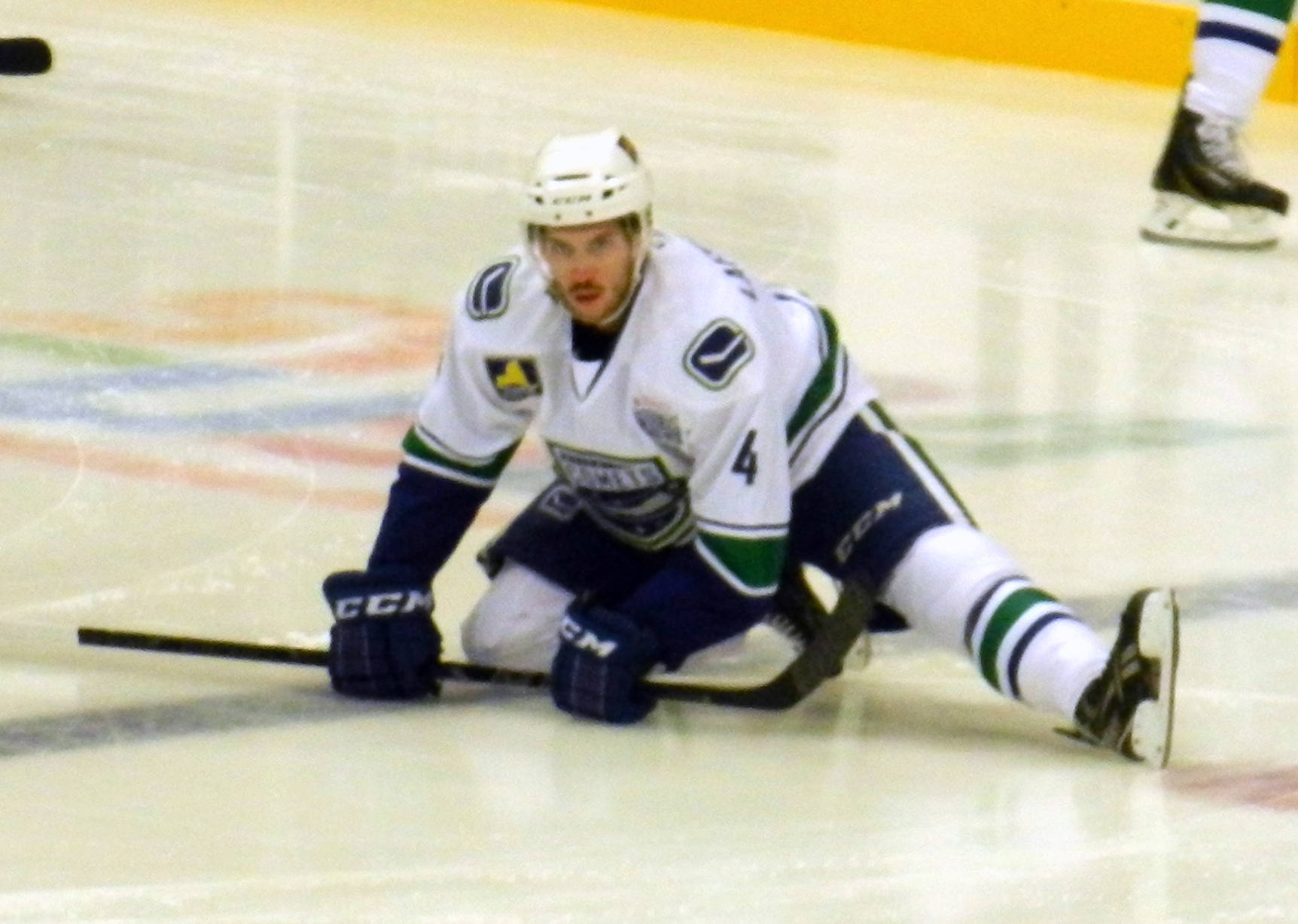 Kane Lafranchise in warm-ups with the AHL's Utica Comets before the Frozen Dome Classic in 2014